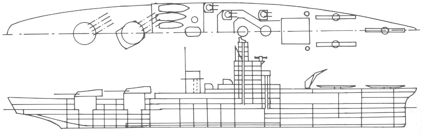 "Scheme F, the hybrid battleship-carrier with three large catapults forward, 1935. Reportedly, it was favored by President Roosevelt." Friedman, Norman (1985). U.S. Battleships: An Illustrated Design History. Annapolis, Maryland: Naval Institute Press. p. 250. ISBN 0870217151. OCLC 12214729.